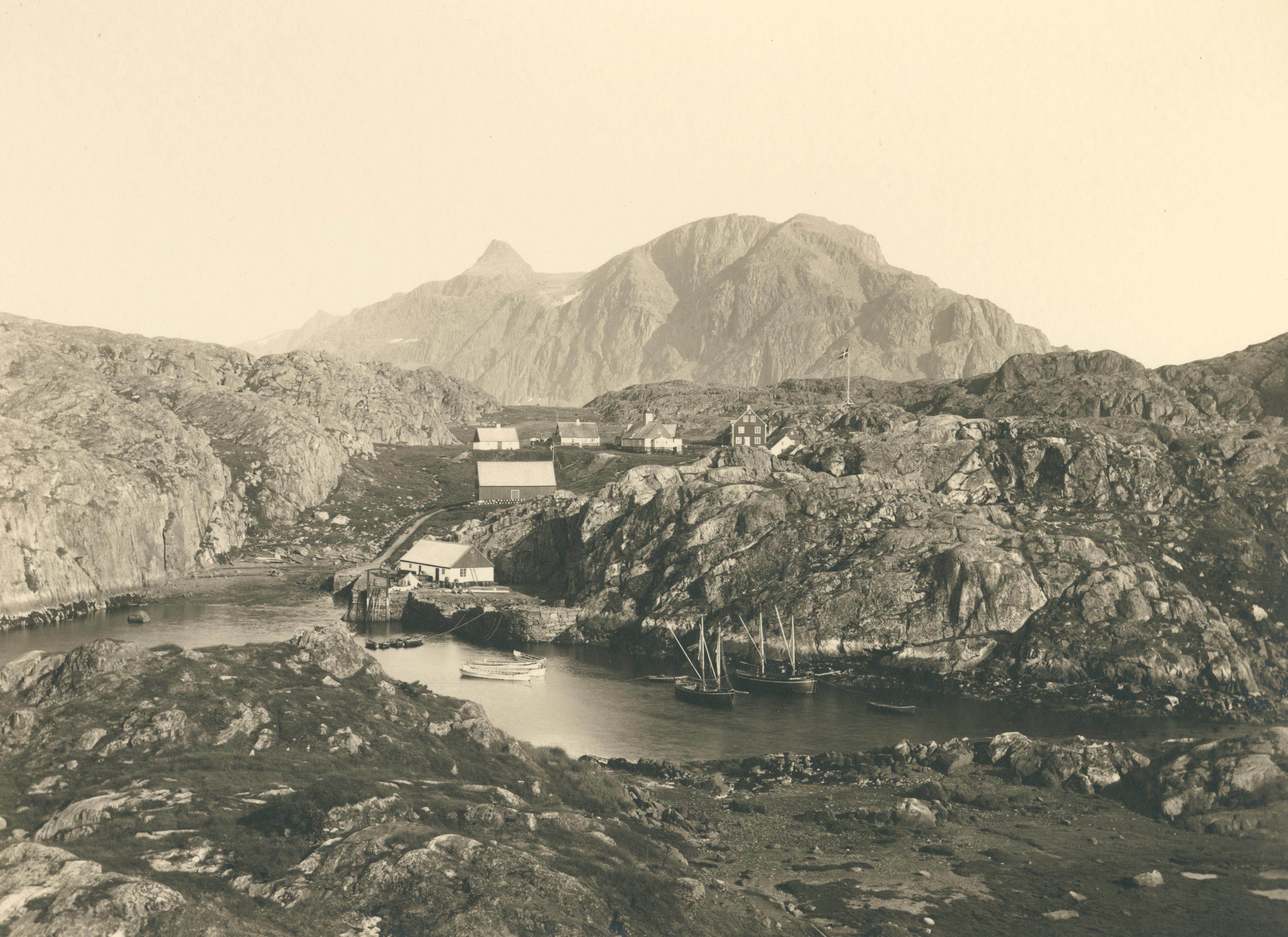 Greenland. Holsteinsborg - Sisimiut - seen from the west.